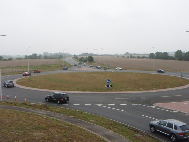 Darlington Eastern Transport Corridor A66 roundabout. Recently constructed roundabout on the A66 at a junction with the new "Darlington Eastern Transport Corridor" road linking the A66 to Haughton Road. View is to the south towards Morton Park with the new road going off to the right of the photograph, running along what was the course of the Stockton and Darlington Railway.